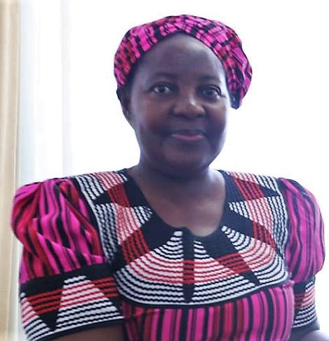 Anne Namakau Mutelo, ambassador of Namibia to Timor-Leste.